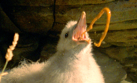 A Northern Fulmar chick protects itself with projectile vomit